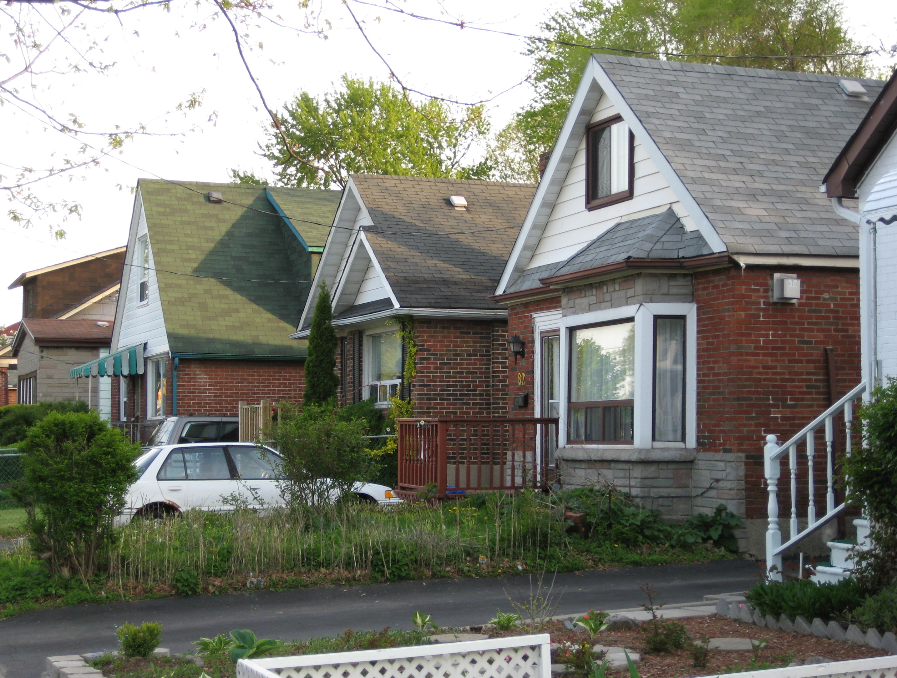 typical houses in Oakridge, Toronto